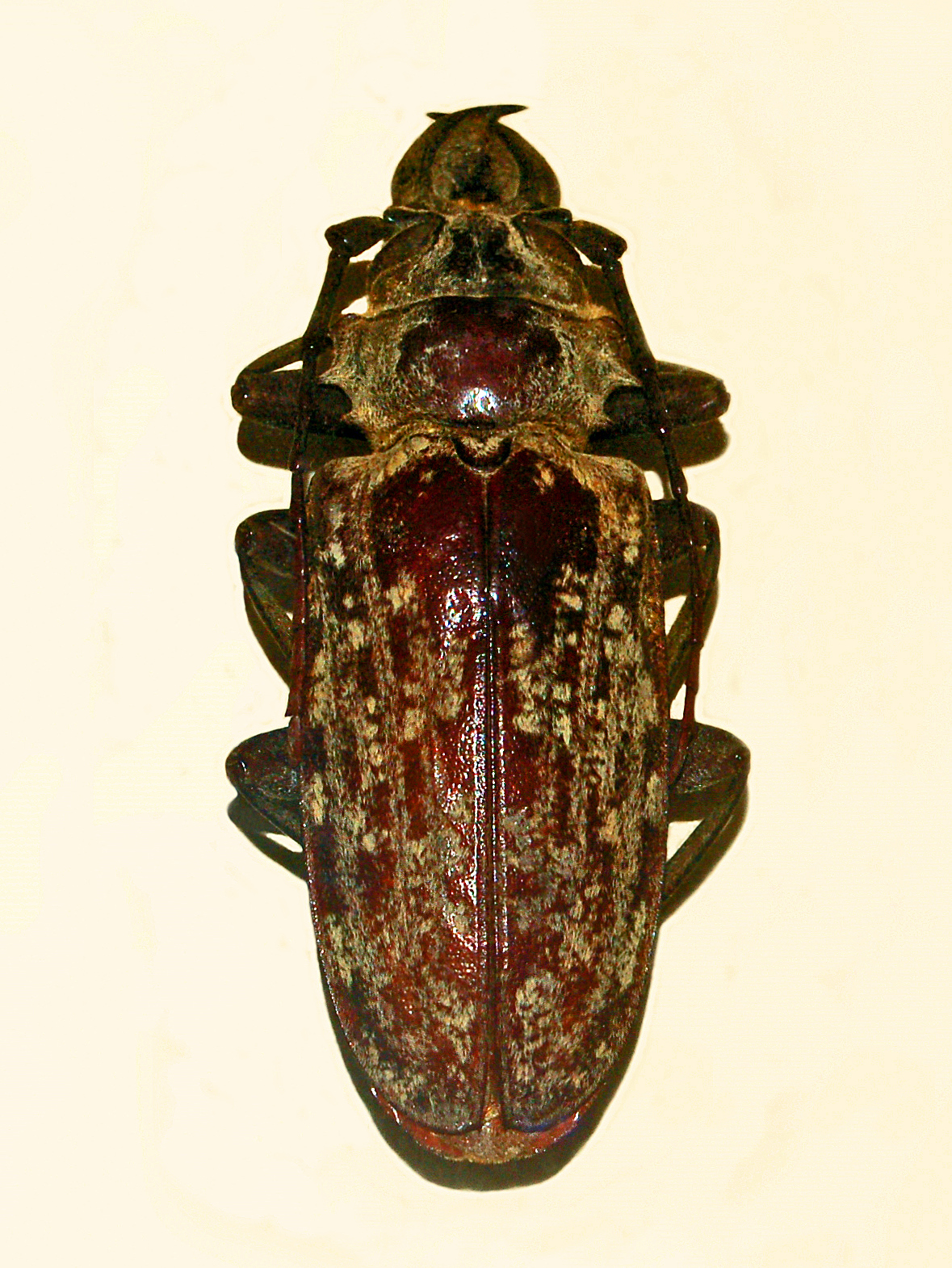 Tithoes confinis from western Africa